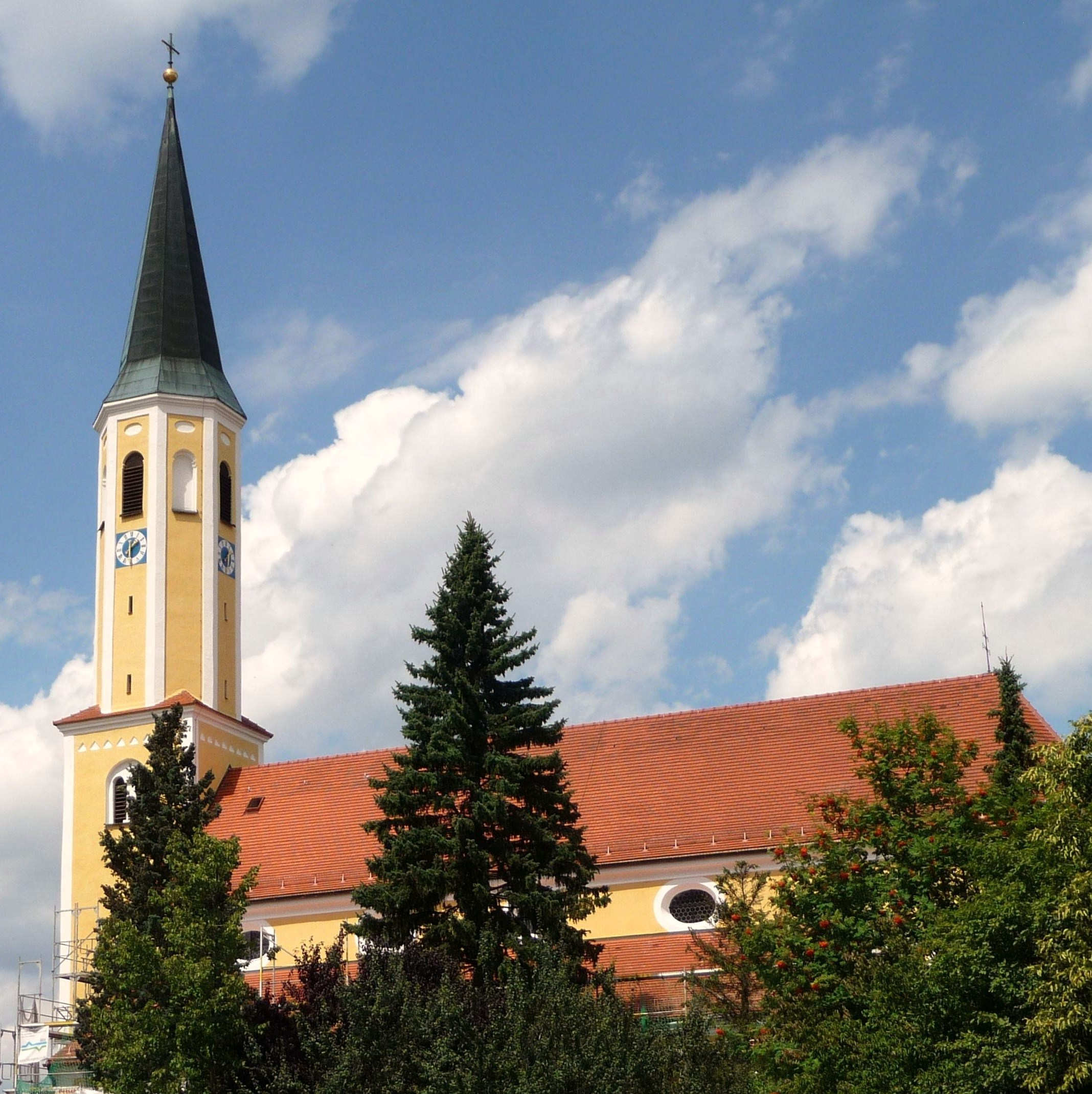 St Thomas' Parish Church, Adlkofen, Germany.